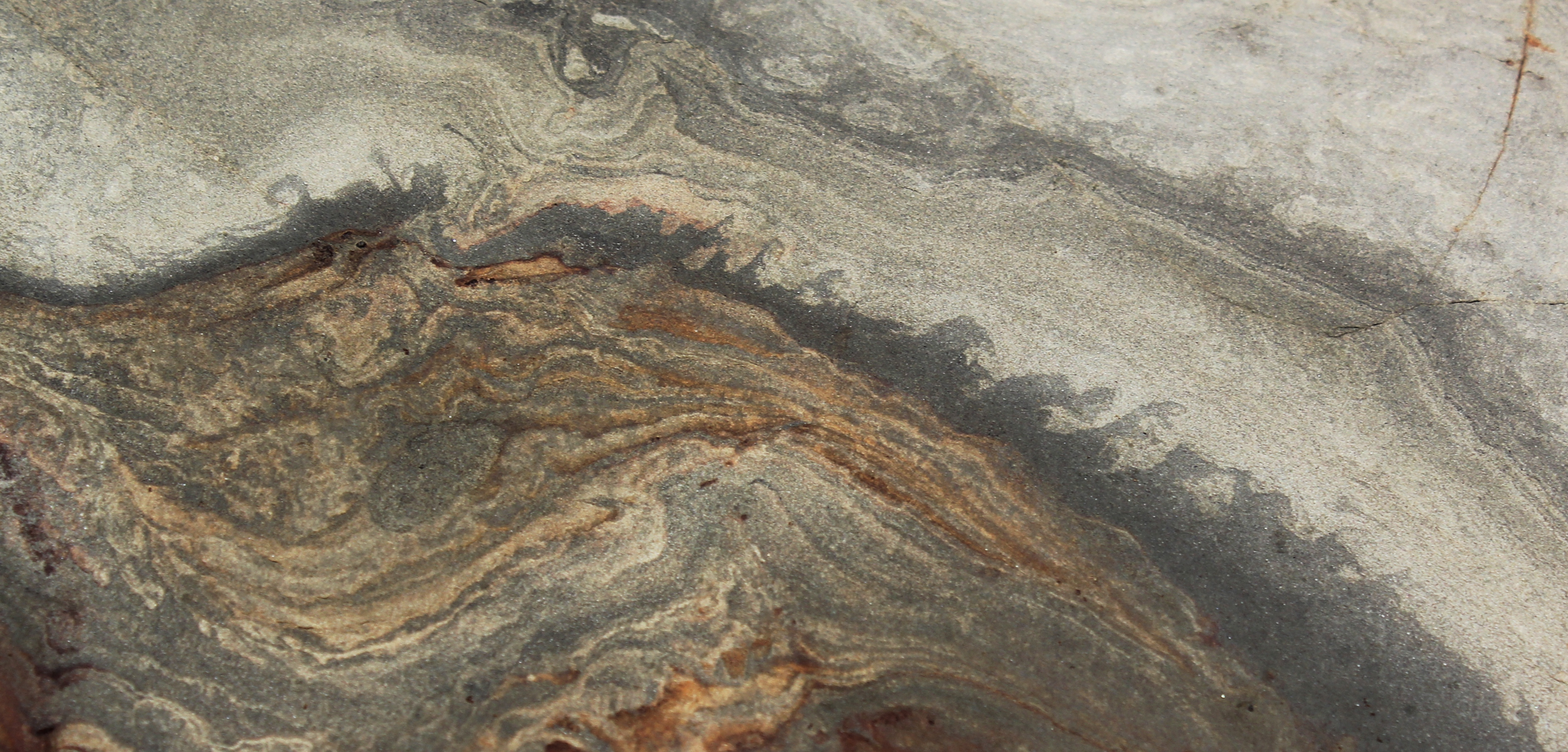 Flame structures in Waitemata Sandstone, exposed on an intertidal rock platform between Long Bay and Granny's Bay, Auckland, New Zealand. The longest of the "flames" is about 2 cm in length. Contrast has been enhanced. Waitemata Sandstone consists of alternating layers of sandstone and mudstone, deposited in a submarine basin between 15 and 20 million years ago. Here a light coloured band of sandstone overlies a darker mudstone layer. As the sandstone pressed down on the mudstone, water escaped upwards along with some of the mud to form the flame structures seen here at the boundary between the two layers.